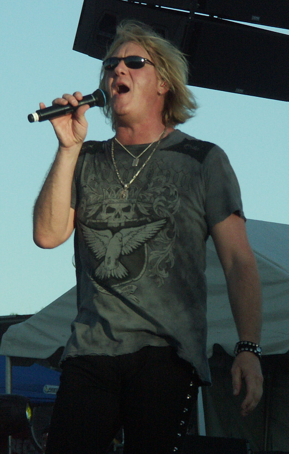 Taken at North Dakota State Fair Def Leppard Concert, 7-26-07. Photo by Matt Becker